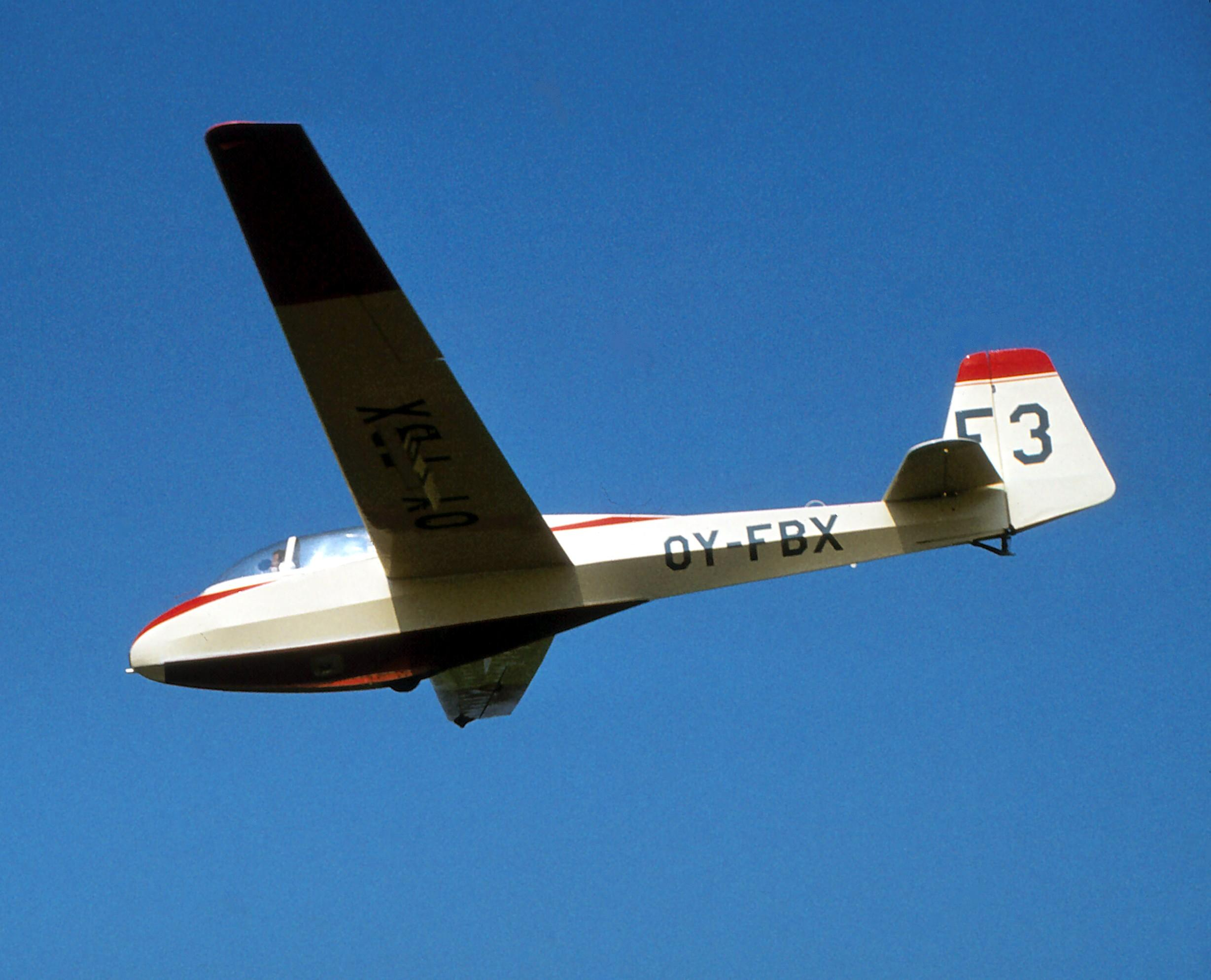 Scheibe Bergfalke III c/n 5517 build 1964 photo july 14 th 1983, glider club Svævethy Mors in Jutland, Denmark